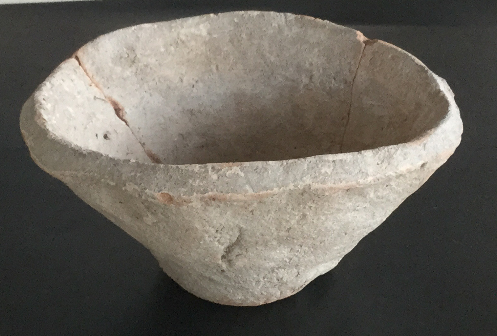 Bevelled-rim bowl from Habuba Kabira South, Syria. Late Uruk period, ca. 3400-3200 BC. Institute for Ancient Studies, University of Mainz, Germany.